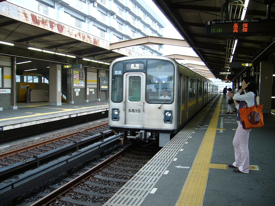 Nagoya Municipal Subway Type 5000 trainset entering Kamiyashiro Station.